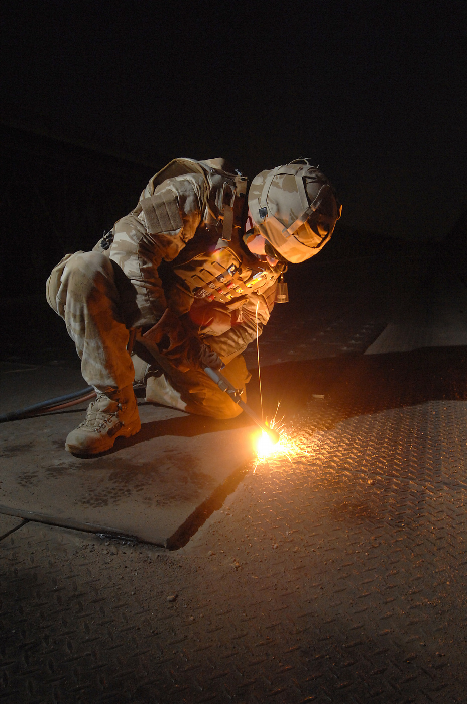 ME Fabricator welding in Iraq